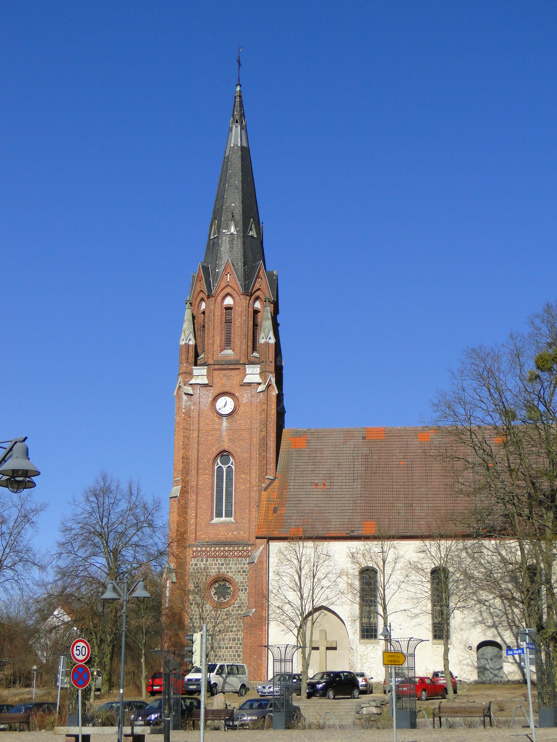 Church in Burg Stargard, district Mecklenburg-Strelitz, Mecklenburg-Vorpommern, Germany